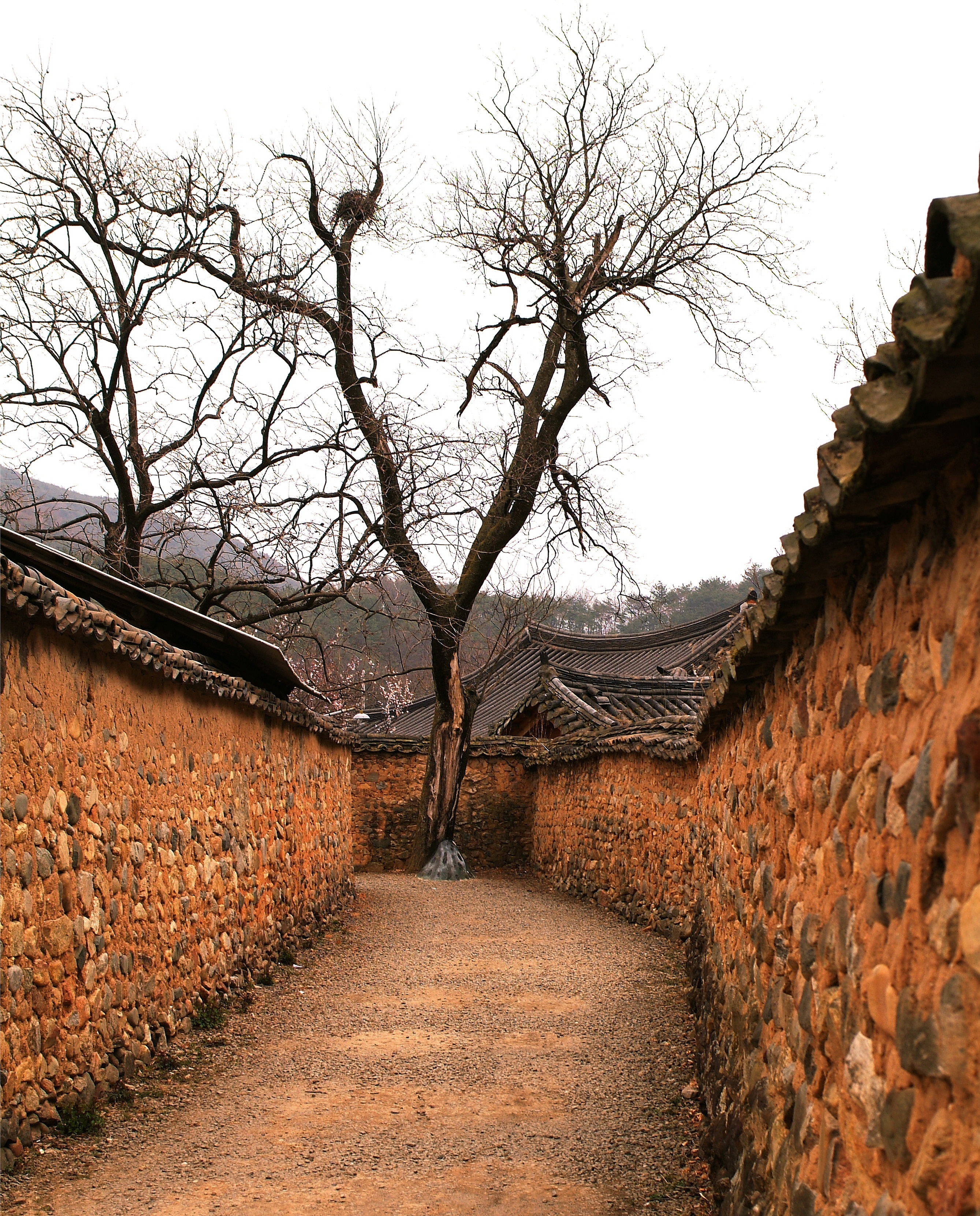 A laneway lined by mud walls in Namsa Village (Sancheong)